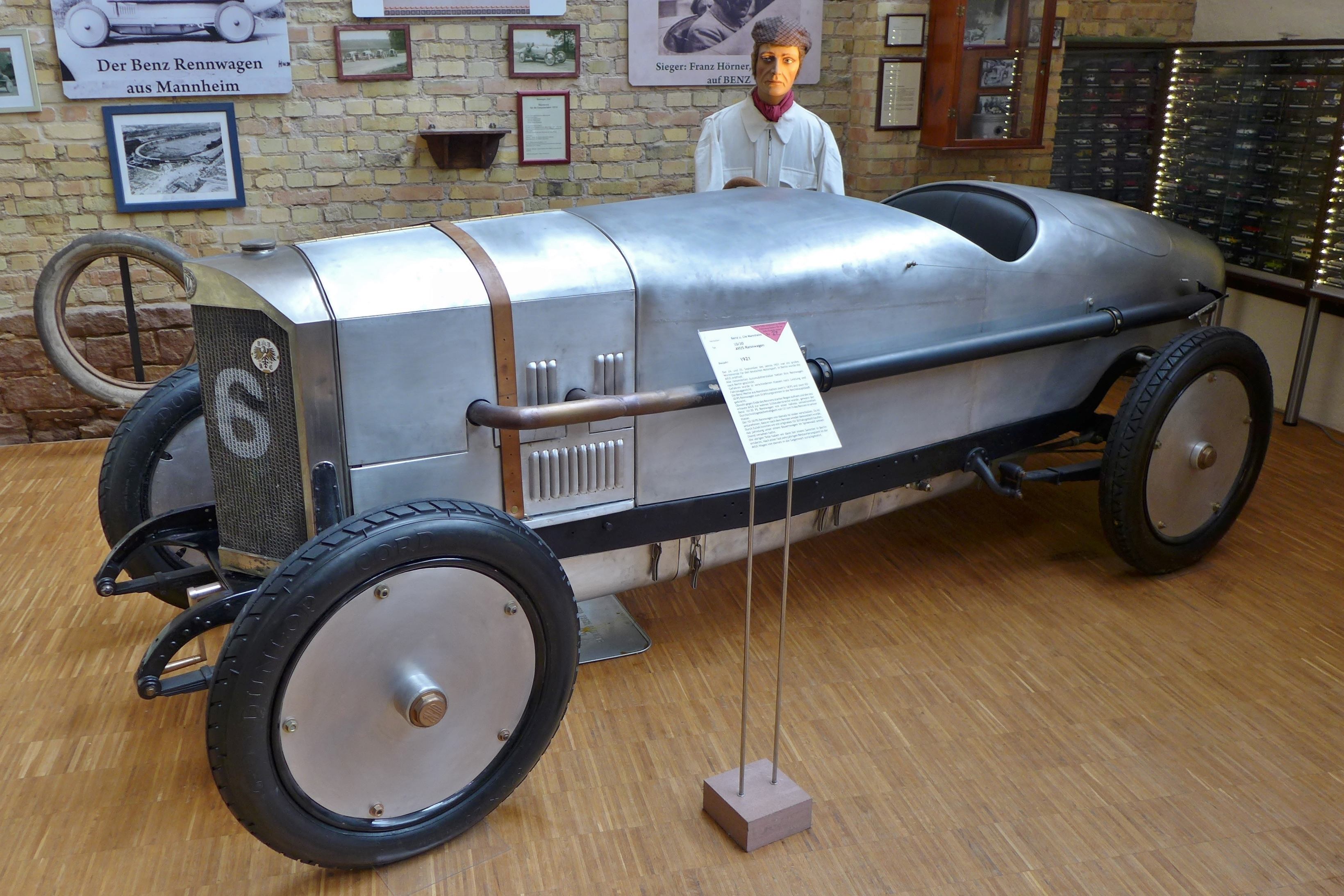 A 1921 Benz 10/30 Avus Rennwagen (racing car), on display at the Automuseum Dr. Carl Benz, Ladenburg, Baden-Württemberg, Germany.